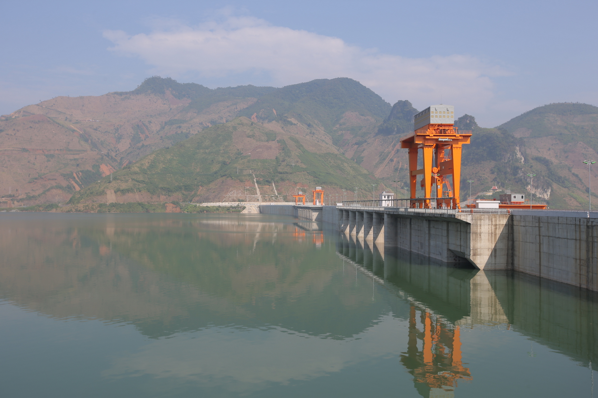 Sơn La Dam reservoir